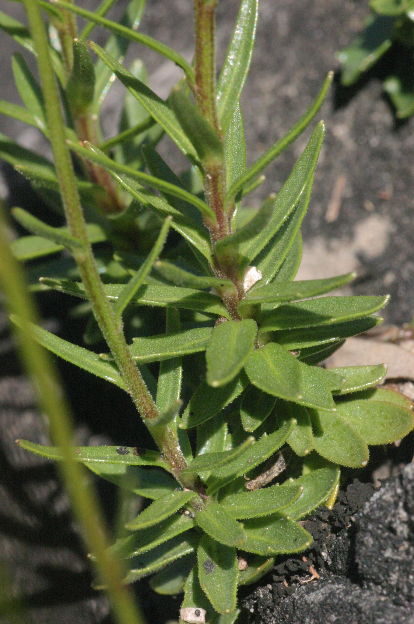 Campanula cespitosa